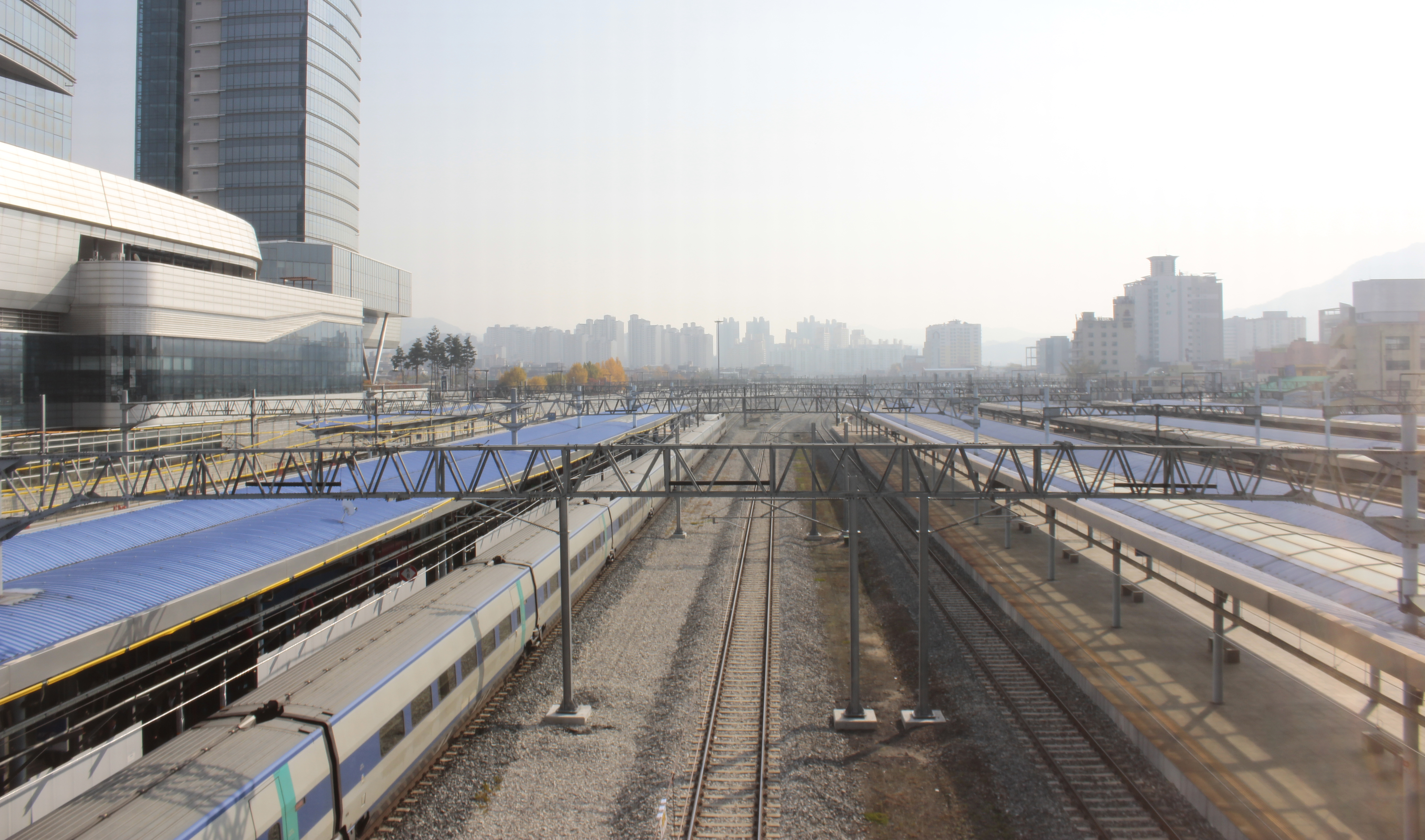 Daejeon Station Tracks